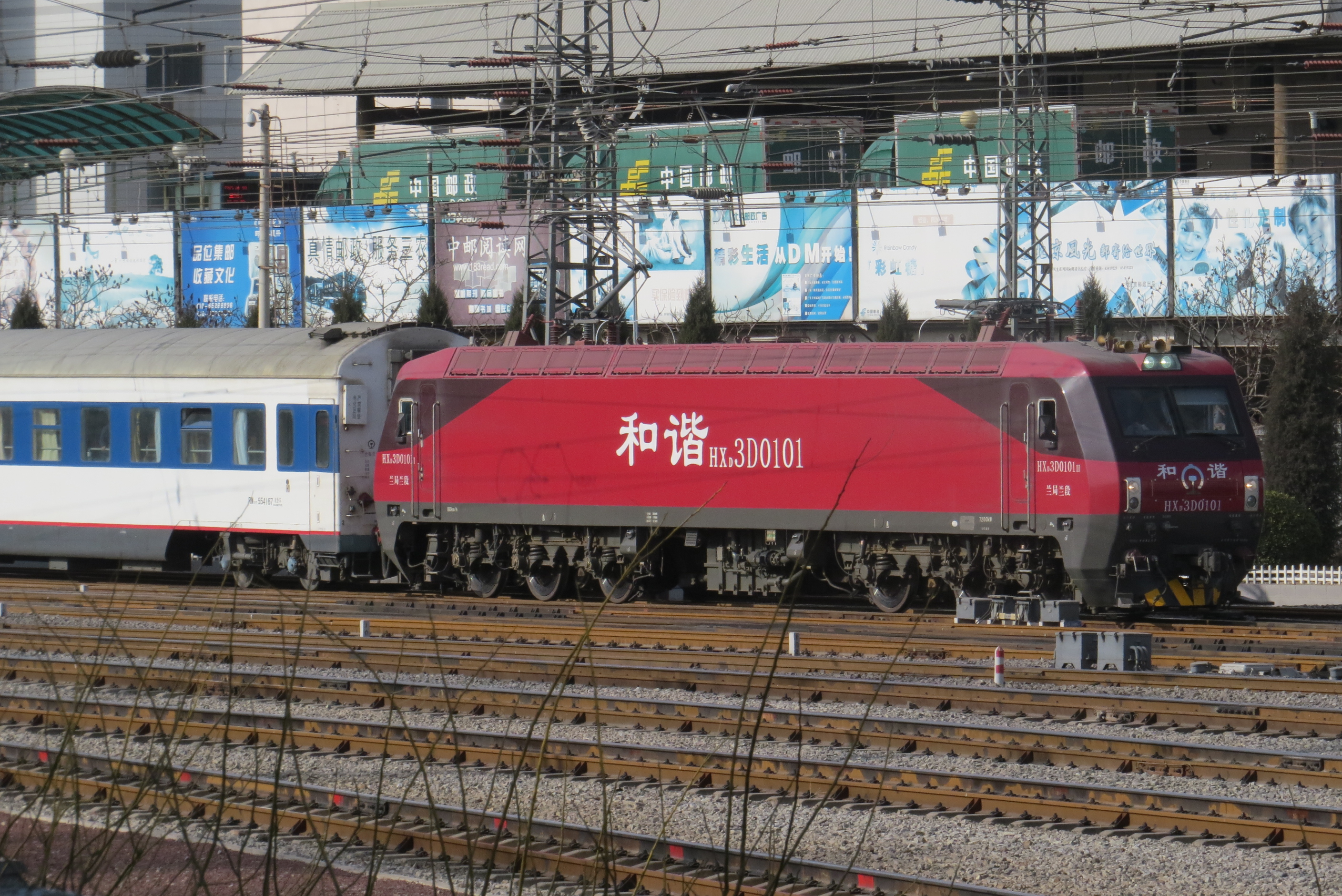 Lanzhou-based HXD3D hauling Z56 from Lanzhou.